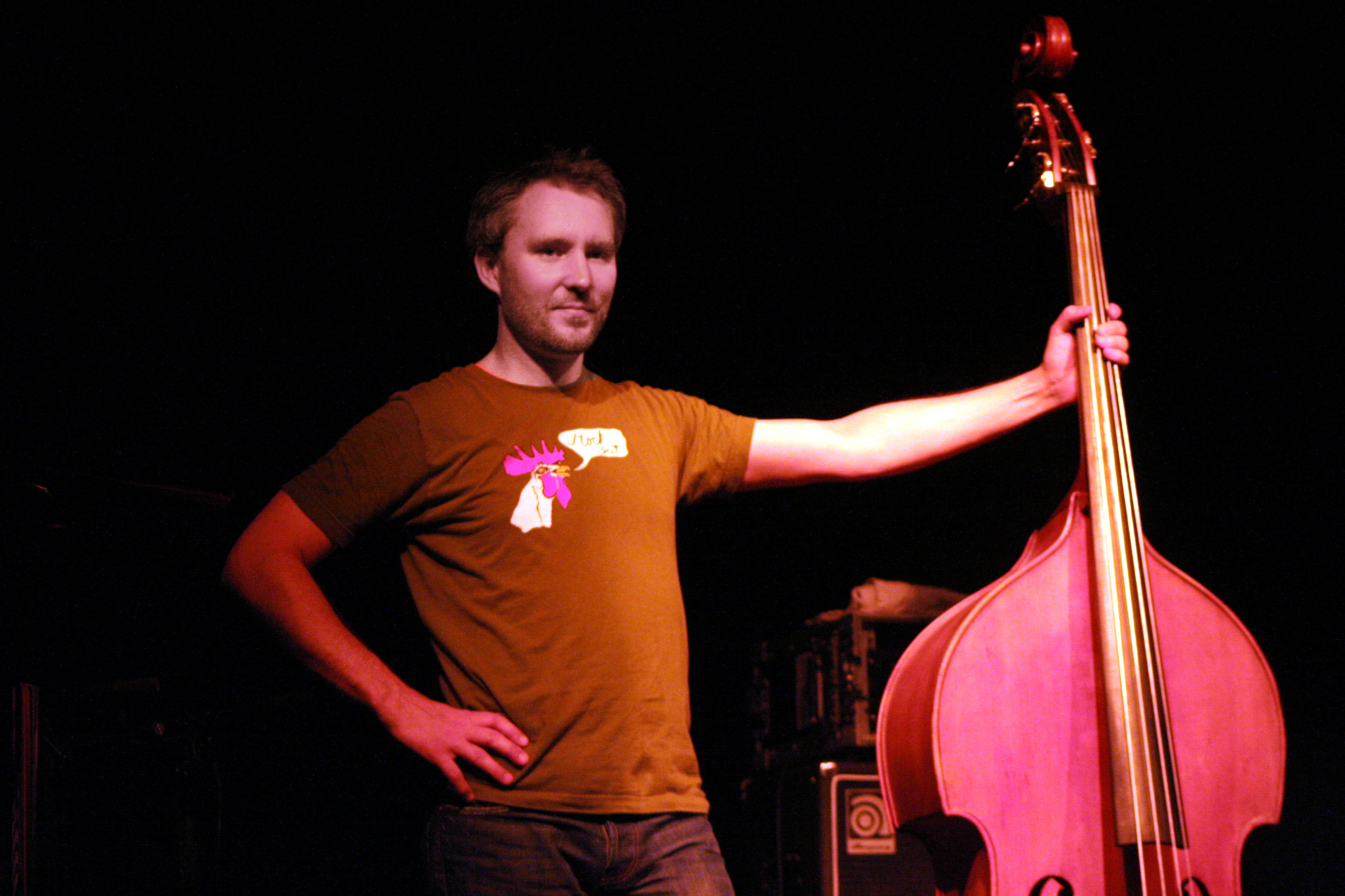 Reid Anderson, bass player of the american jazz group The Bad Plus. Taken at a concert in the Kulturzelt in Kassel, Germany in 2006